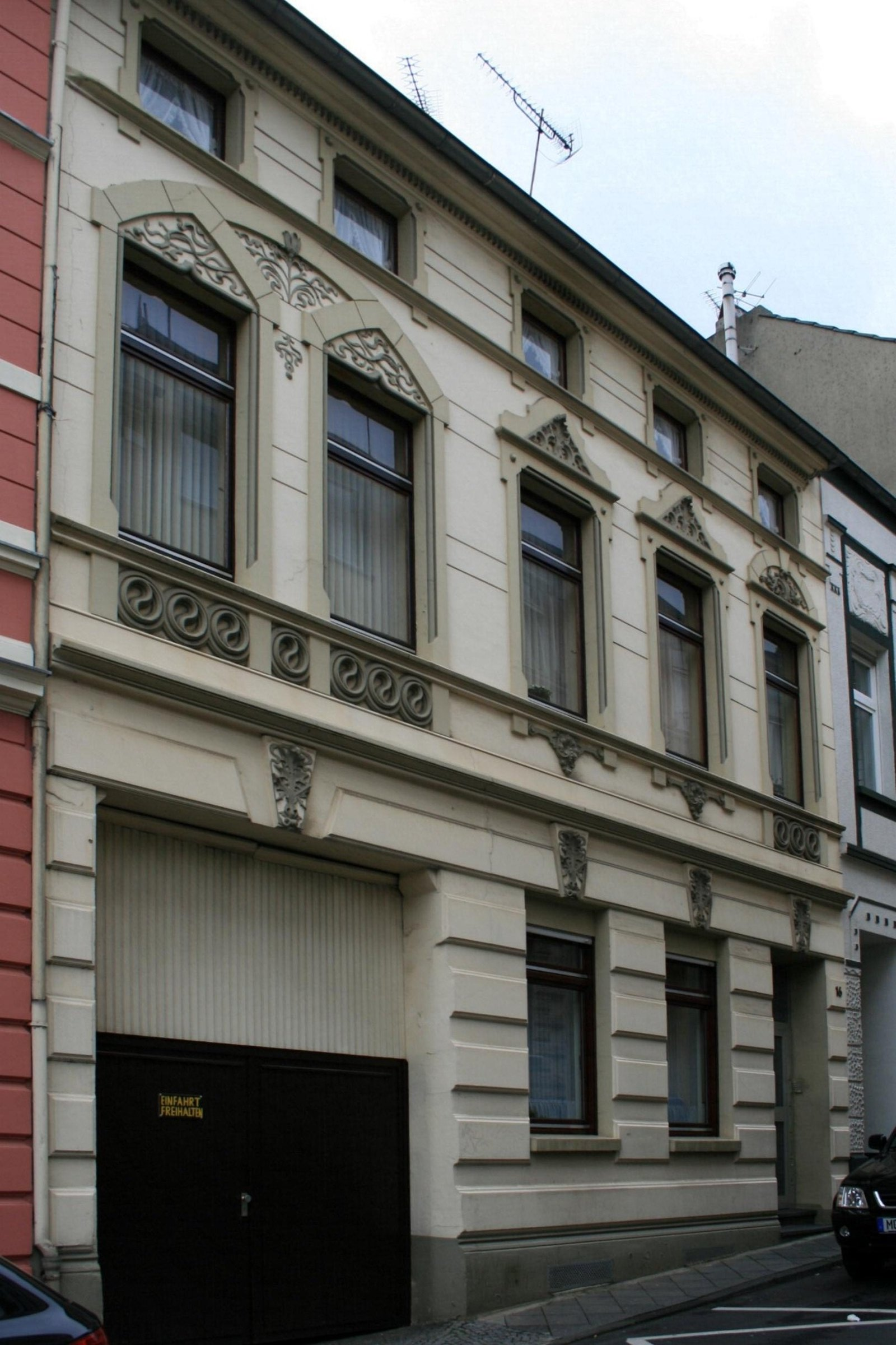 Cultural heritage monument No. L 025 in Mönchengladbach